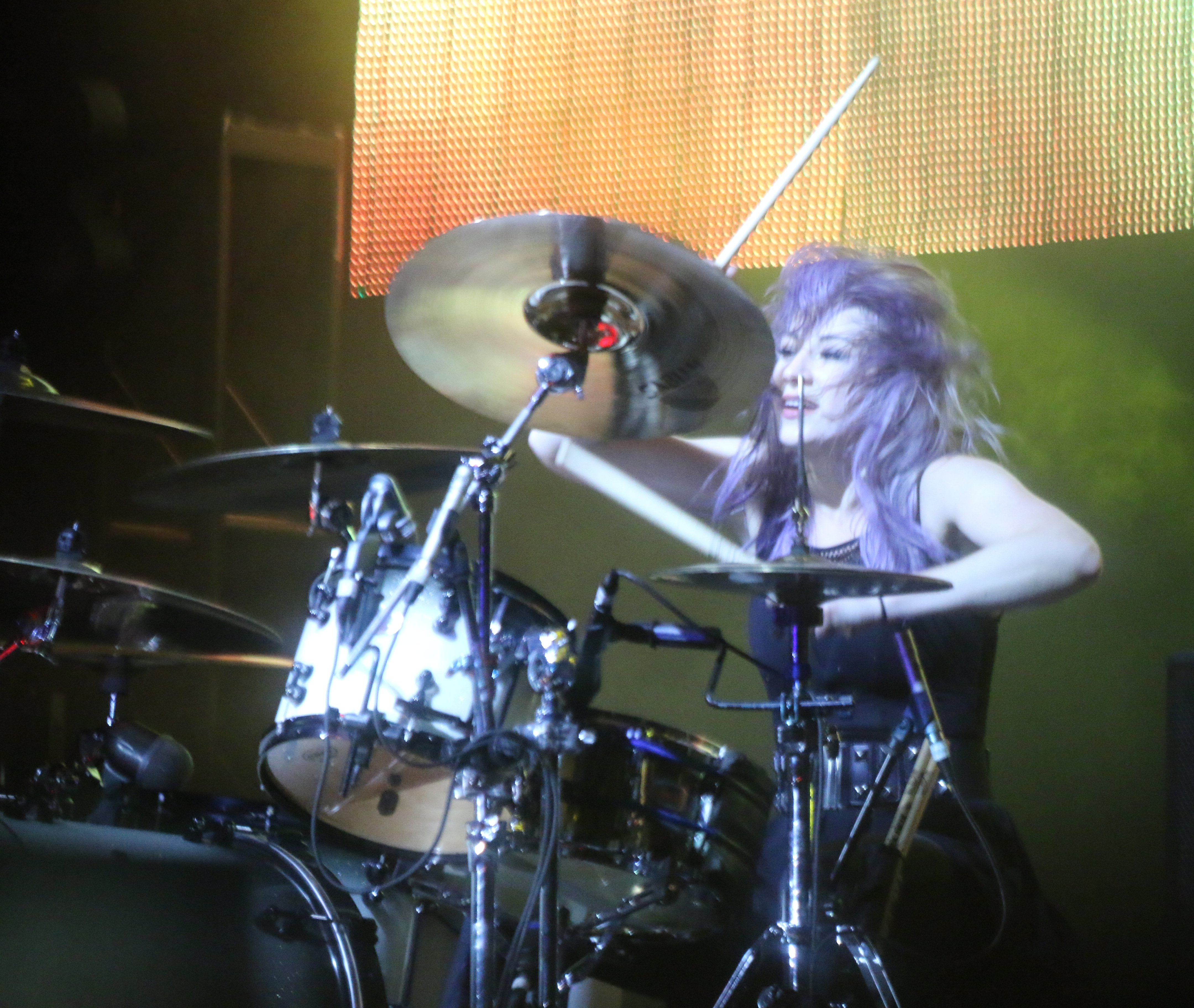 Skillet drummer Jen Ledger playing at Lifest 2017